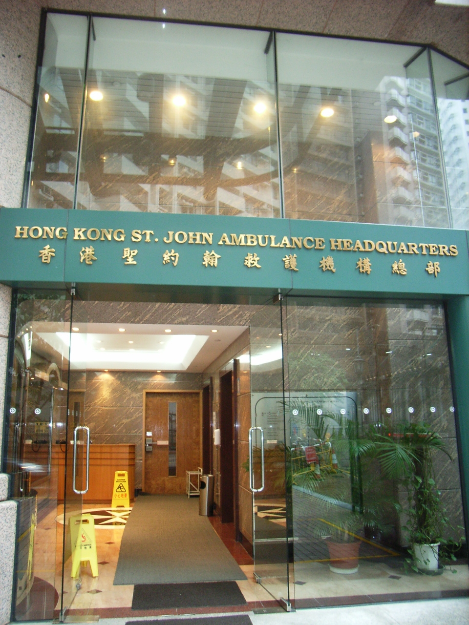 麥當勞道 MacDonnell is in the Mid-Levels of Hong Kong Island. AlbertCotton